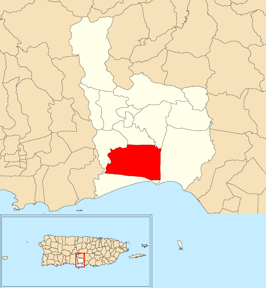 Cintrona, Juana Díaz, Puerto Rico locator map